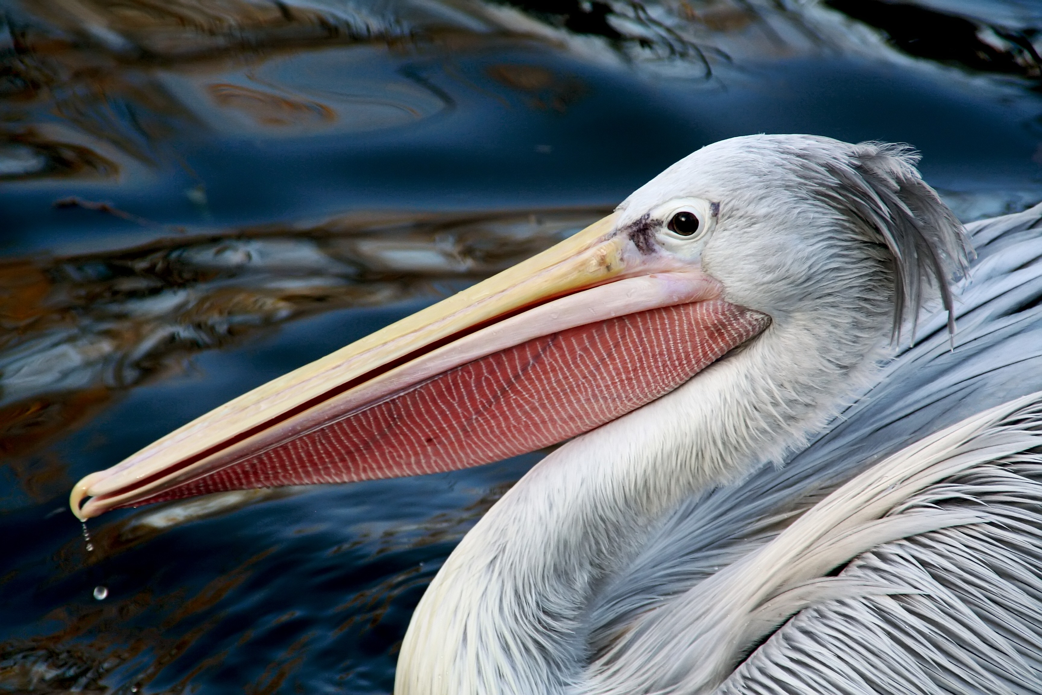 A Pinked Backed Pelican (Pelecanus rufescens), photographed at Bristol Zoo, UK